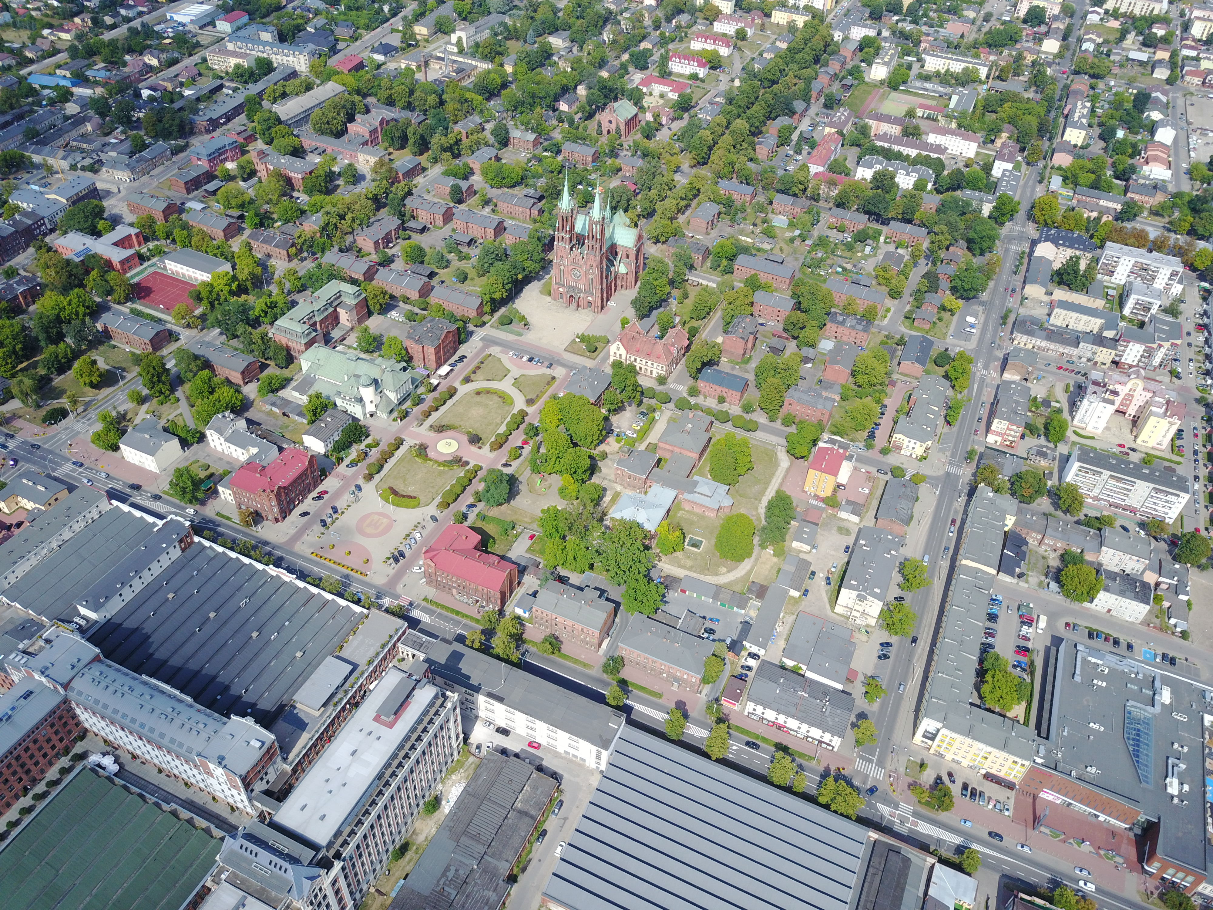 Aerial photographs of 19th-century Factory Town in Żyrardów